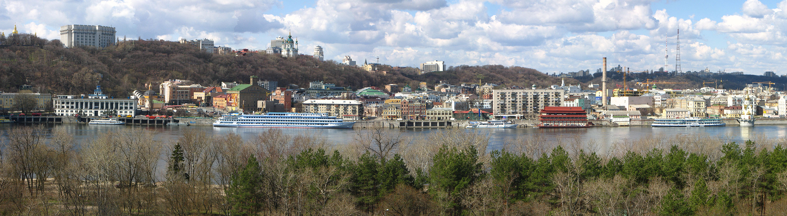 The Dnieper River in Kiev